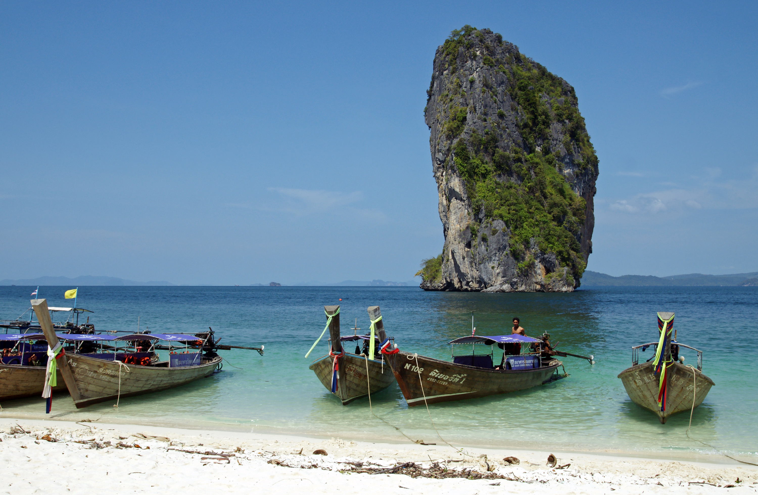 The beach of Poda island with long-tail boats, Krabi, Thailand.